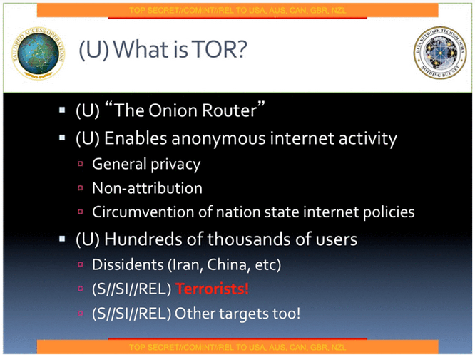 NSA documents leaked by Snowden showed how the agency approached what it called "The TOR problem,” in which it exploited a JavaScript weakness to uncover the identities of anonymous users of the Tor encrypted network.